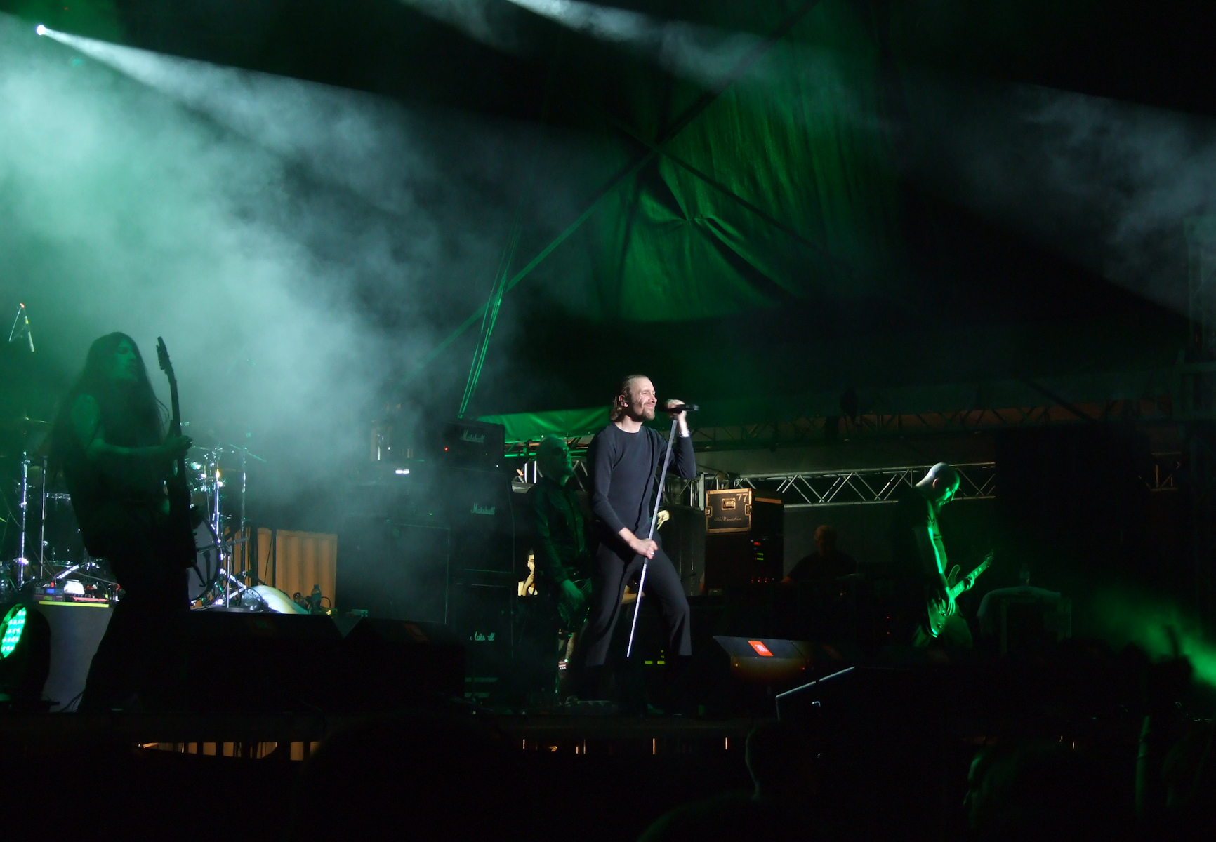 The British heavy metal band Paradise Lost at Kavarna Rock Fest 2011, Bulgaria.